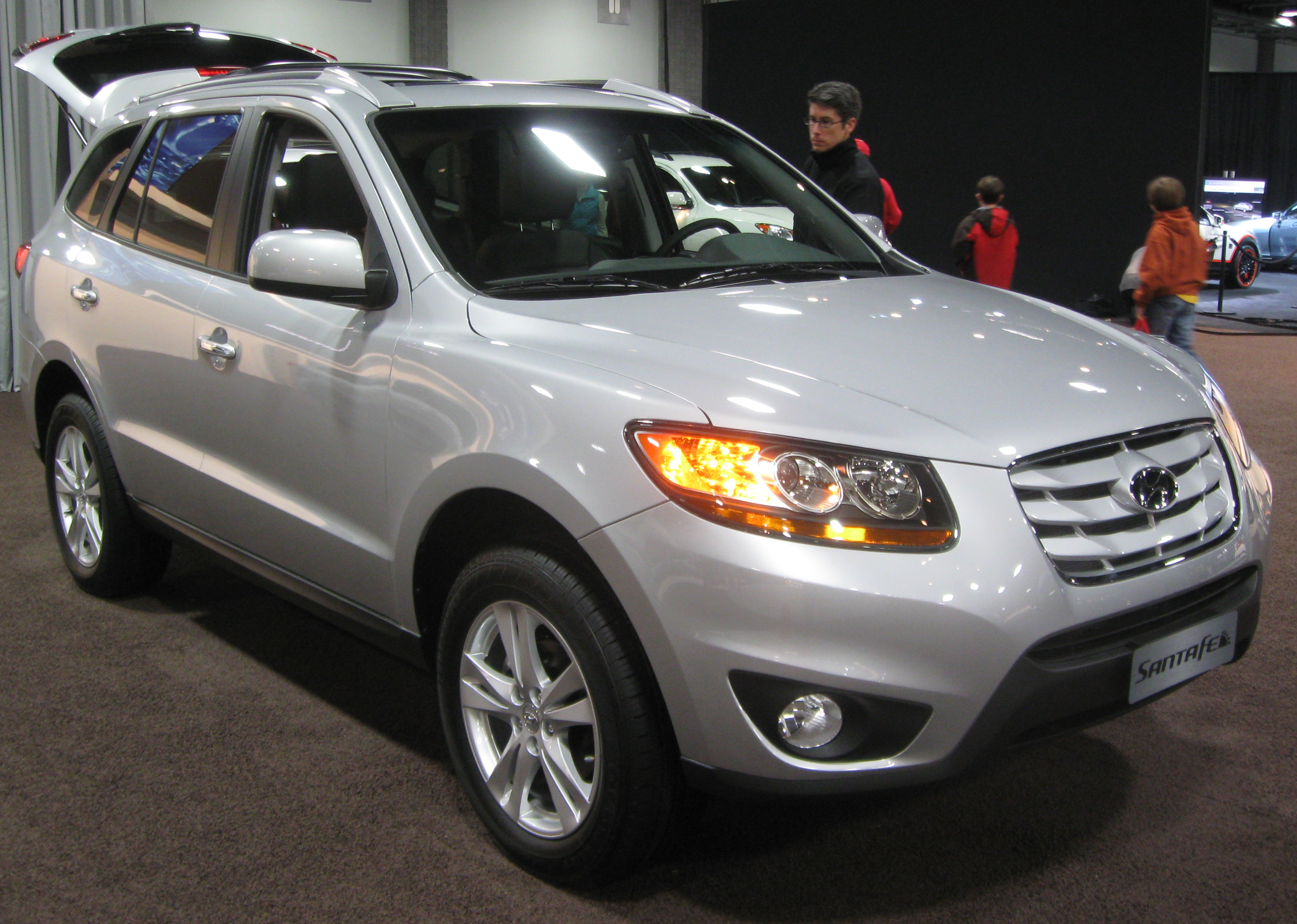 2010 Hyundai Santa Fe photographed at the 2010 Washington Auto Show.